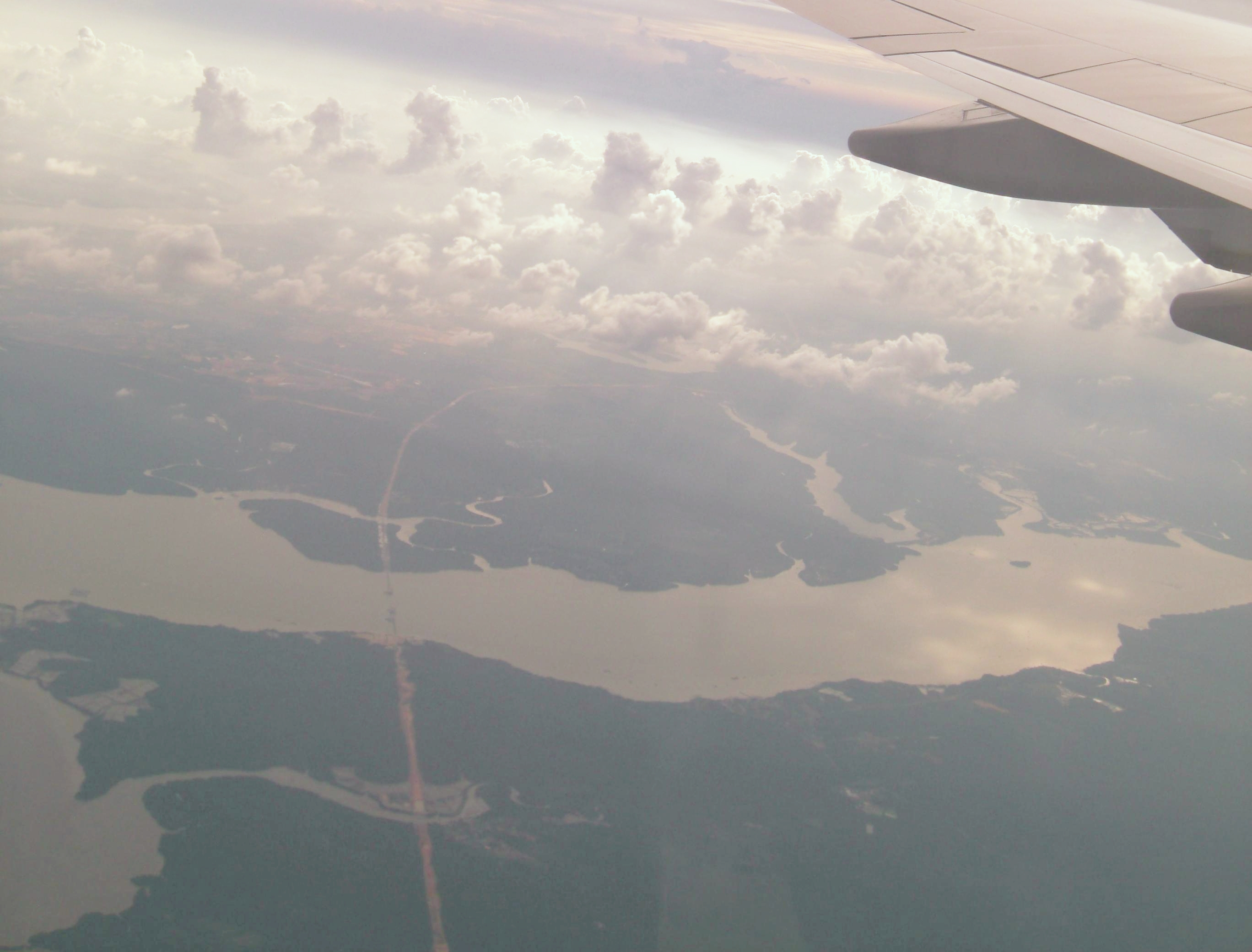 Taken during my flight from Singapore to San Francisco